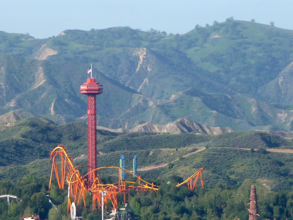 Resized to 1200 pixels using FlickrExport from iPhoto. 316K